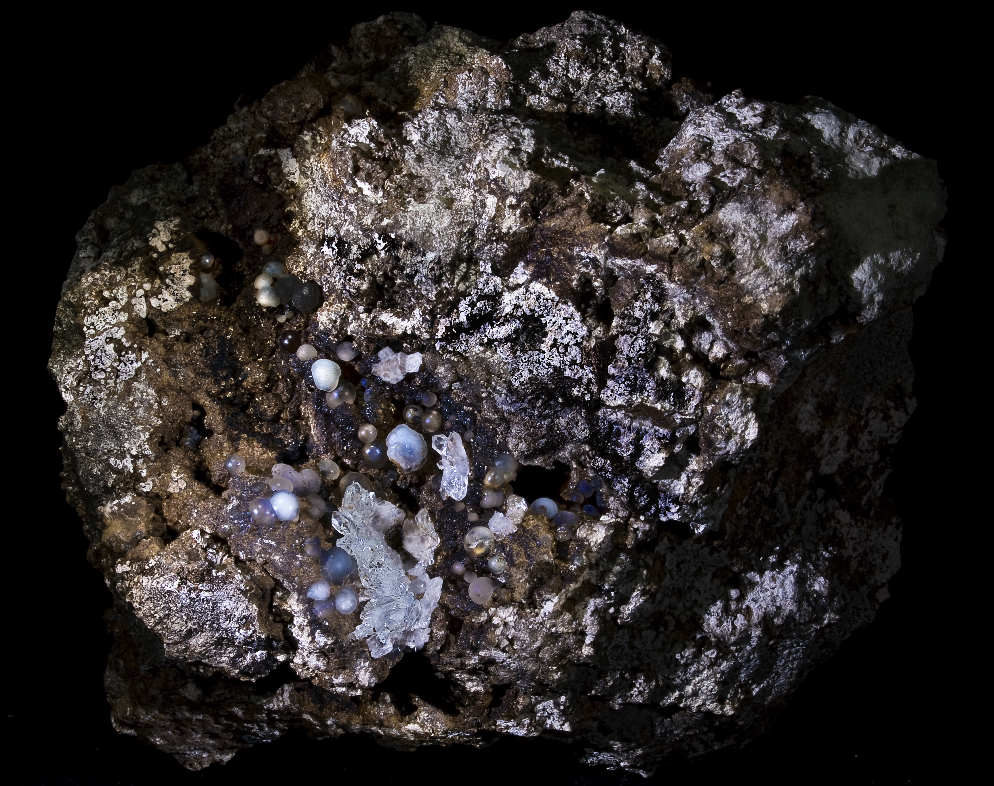 Opal-CT (Lussatite) Locality : Mine des Rois, Dallet, Pont-du-Château, Puy-de-Dôme, Auvergne, France Size 18x13x12 cm